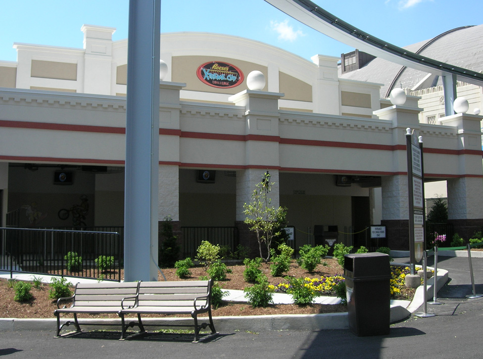 Reese's Xtreme Cup Challenge building at Herhseypark Photo by Ryan Painter